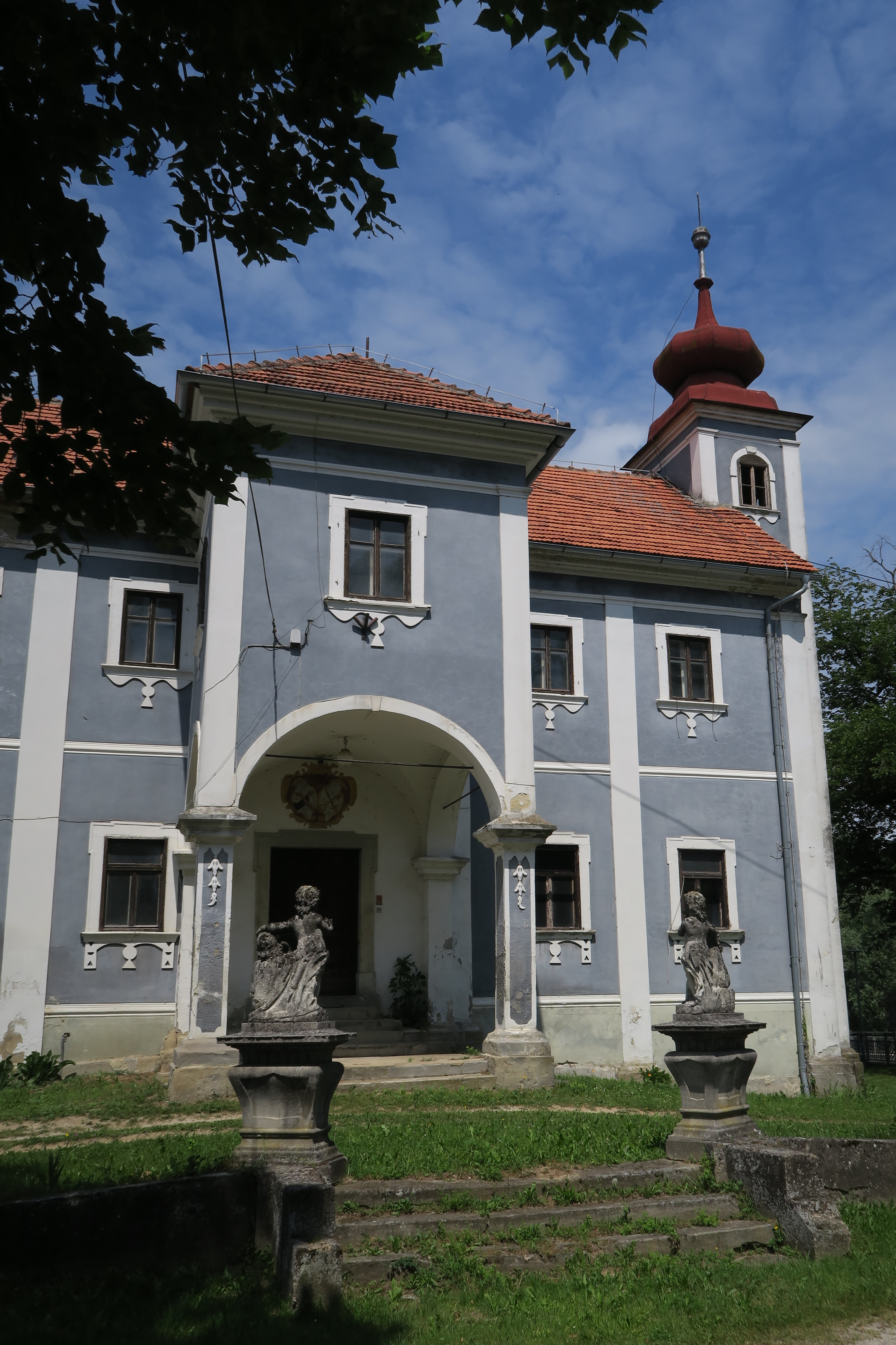 Majšperk